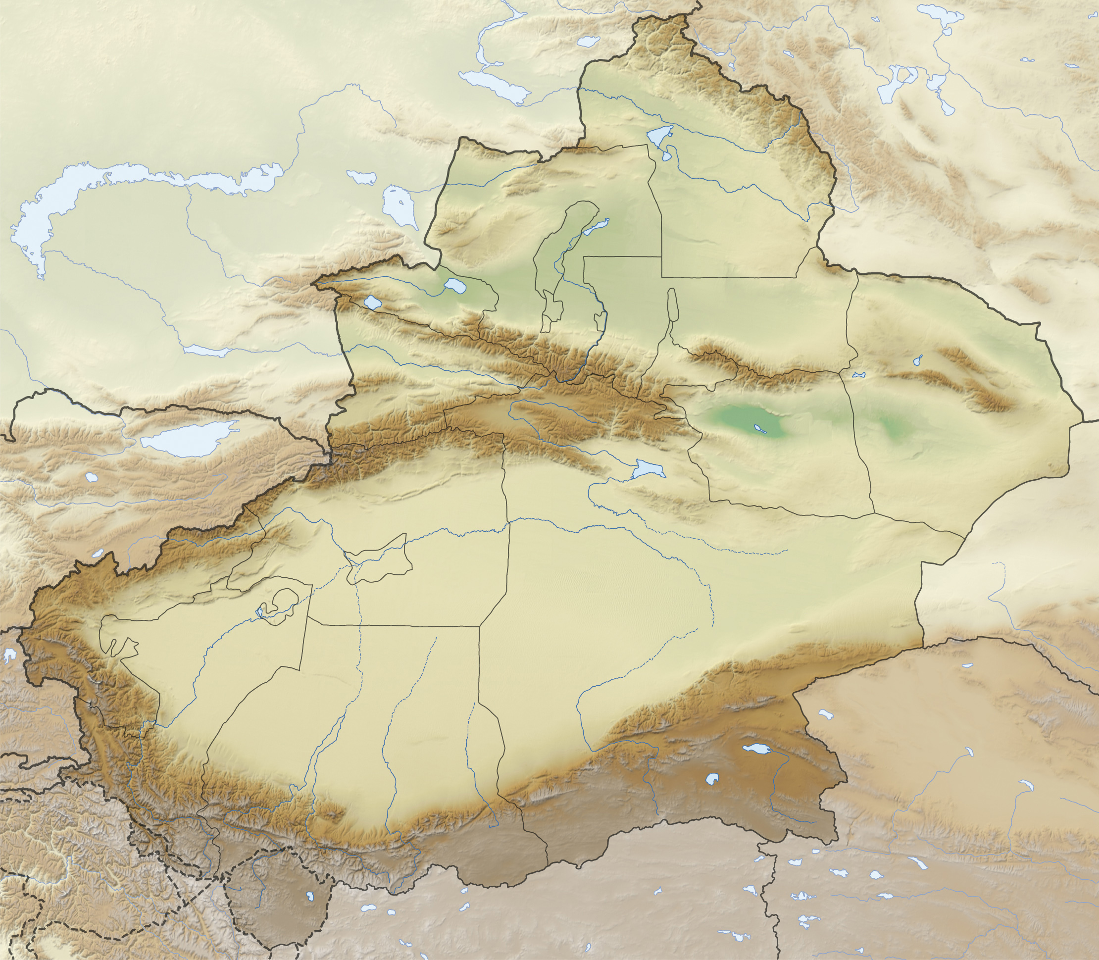 Location map of Xinjiang, People's Republic of China Equirectangular projection, N/S stretching 135 %. Geographic limits of the map: N: 49.4° N S: 34.2° N W: 73.2° E E: 96.7° E